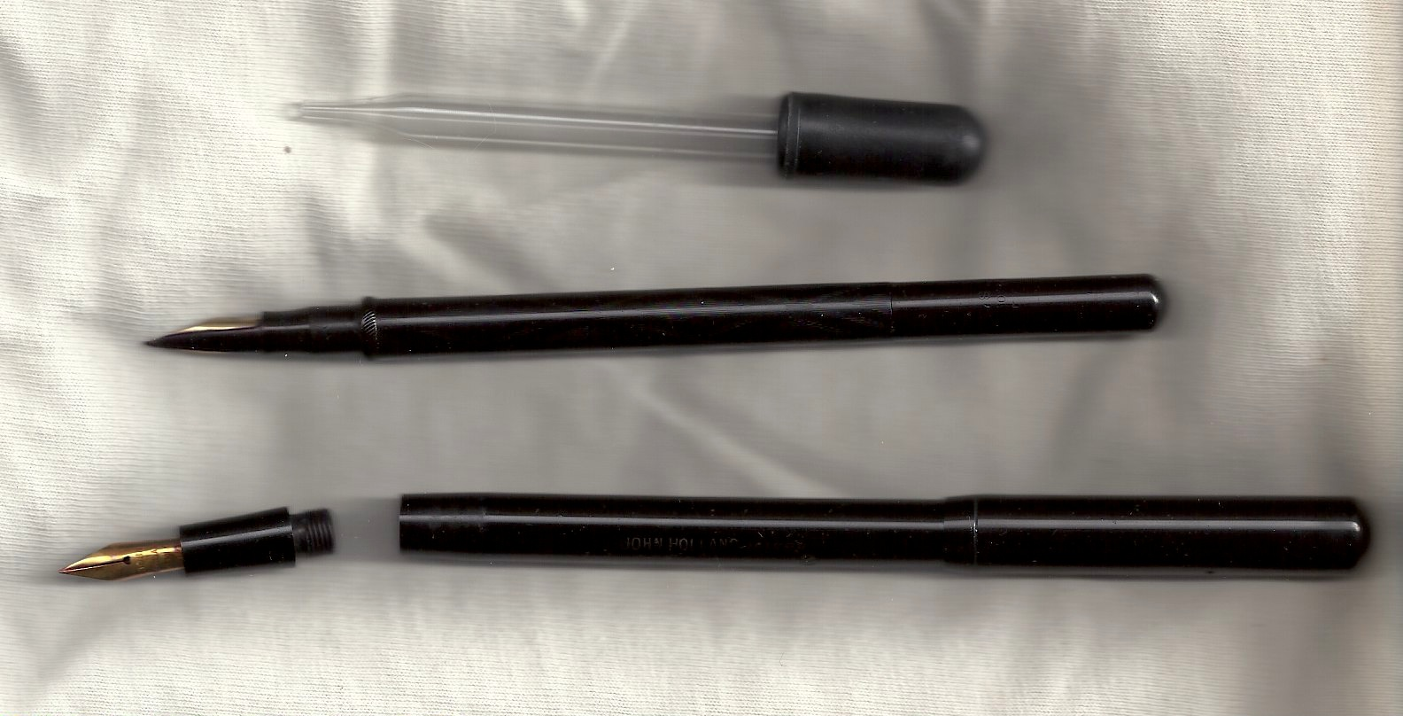 Top: Eye Dropper Middle: circa 1890 John Holland. Note the "hood" over the nib. Bottom: circa 1905 John Holland, with section removed for filling.